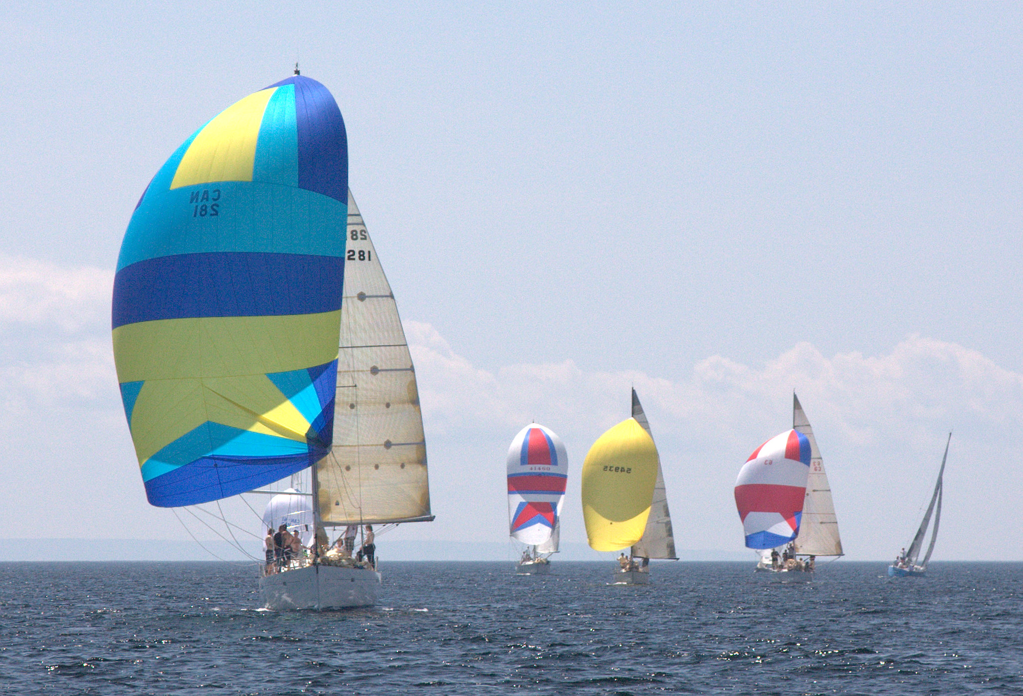 Sailboat racing is a long tradition in the Bras d'Or, with the various yacht clubs around lake hosting annual Regattas and race weeks. The East Bay Regatta, held the last weekend in July since 1984, had grown to be the largest of its kind in Nova Scotia featuring races and other social events. In some years as many a 40 boats participate. Numbers are smaller now but the regatta continues.